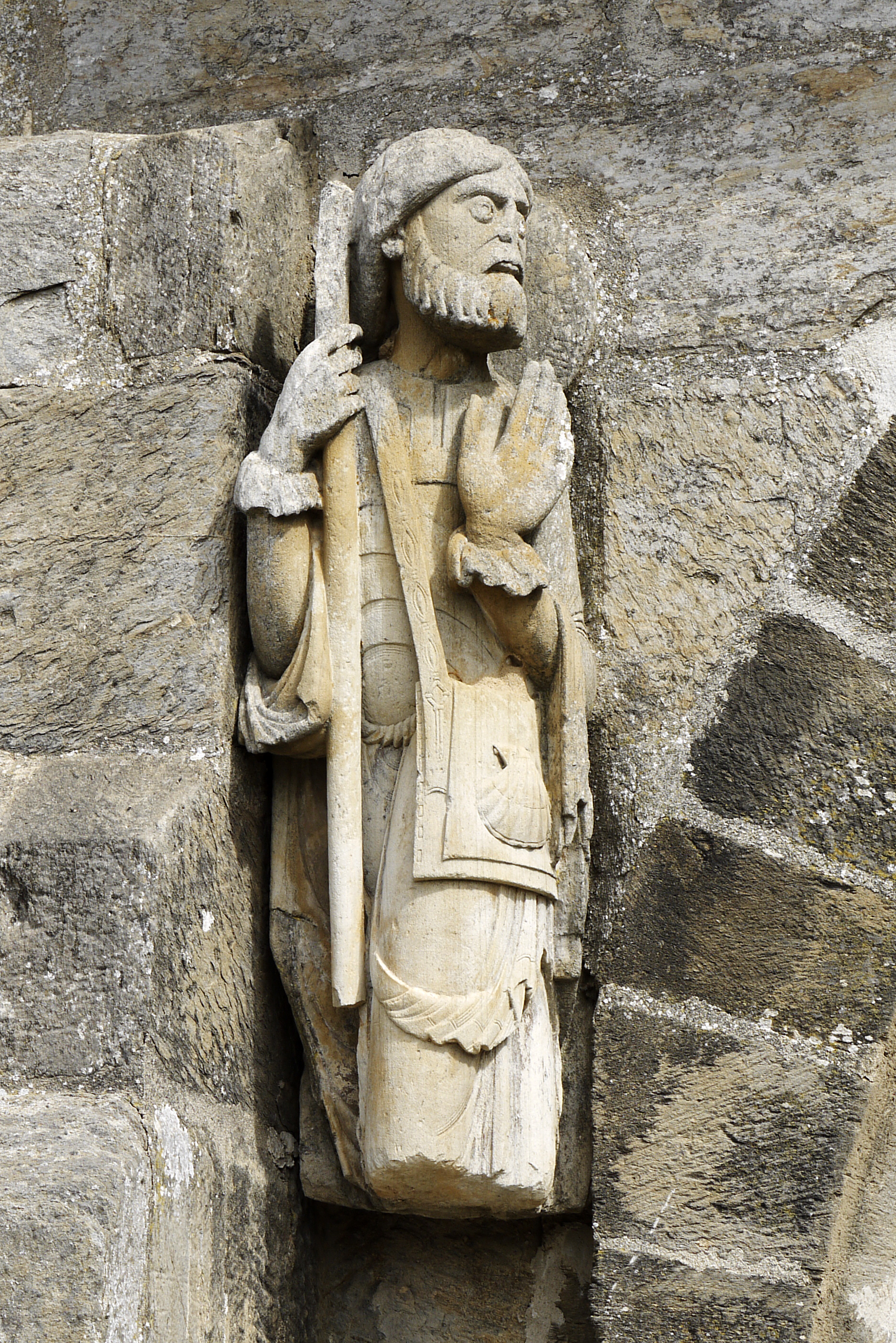 Saint Jacob, in the church Santa Marta de Tera, Benavente, Zamora, Spain.